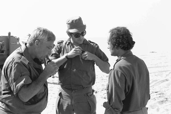 Ariel Sharon, People of Israel